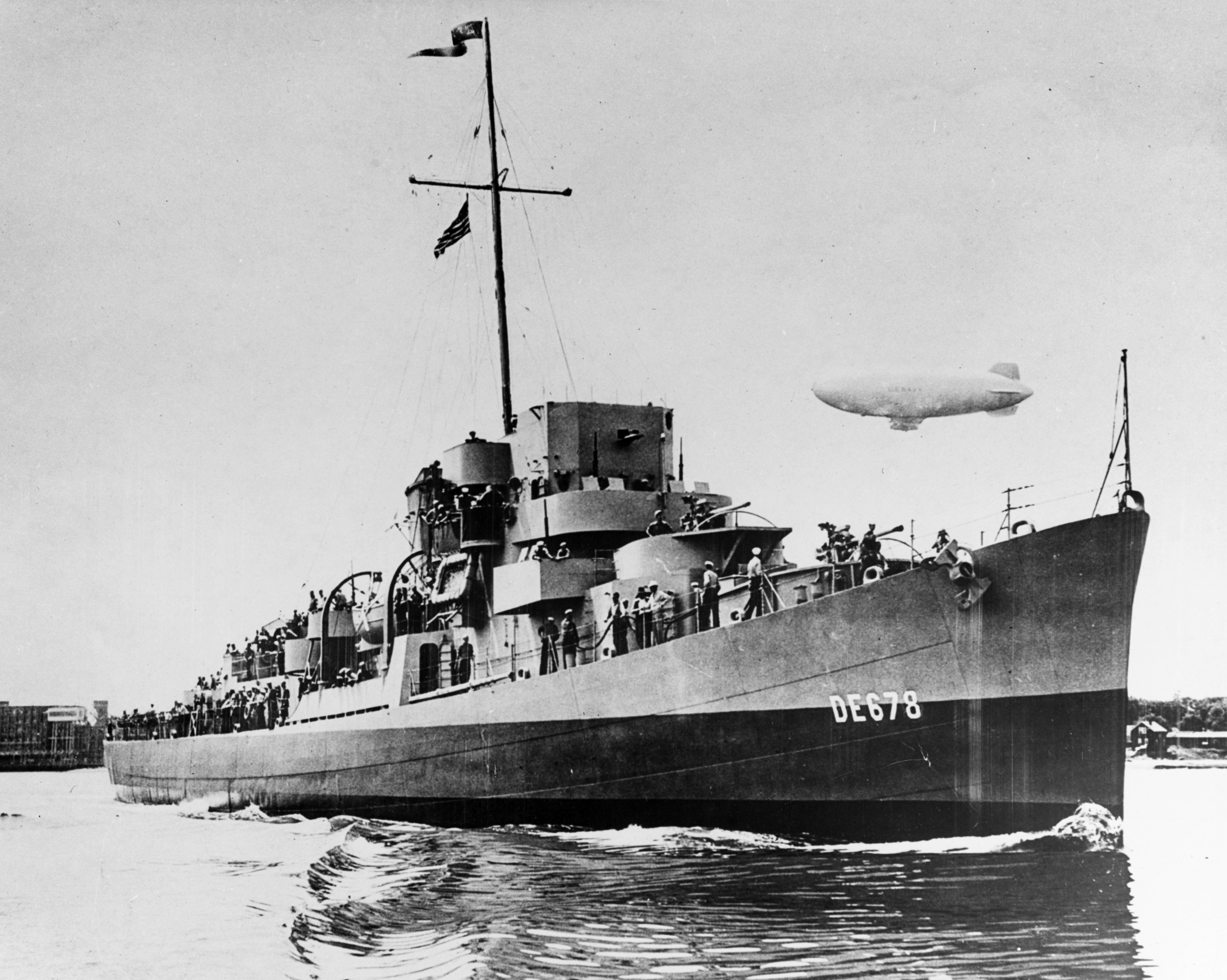 The U.S. Navy destroyer escort USS Harmon (DE-678) underway, circa in August 1943, when the ship was first completed. This view was retouched by the censor to remove radar antennas, adding the pennant at the masthead in their place. It was then released for publication in March 1944.